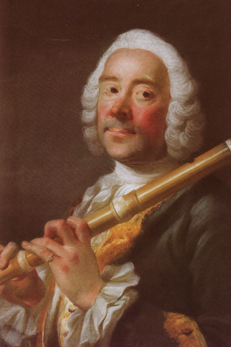 Jakob Friedrich Kleinknecht, german composer, flutist and violinist